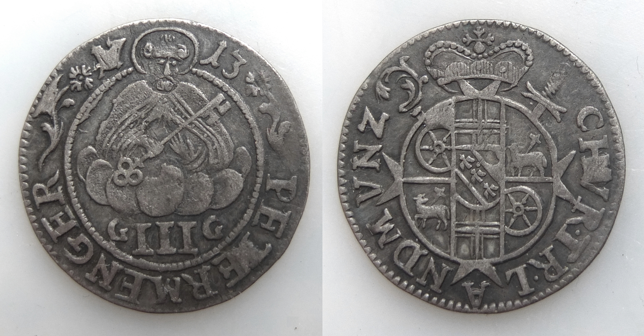 Triple Albus (III Petermenger), Trier 1713, AV: St. Peter with key of the town, RV: Coat of arms of Charles Joseph of Lorraine, Archbishop-Elector of Trier